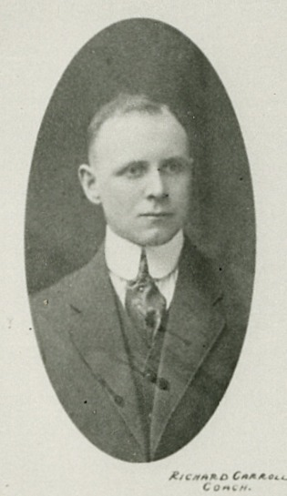 Coach Dick Carroll of the Toronto Arenas hockey club ca. 1917–1918